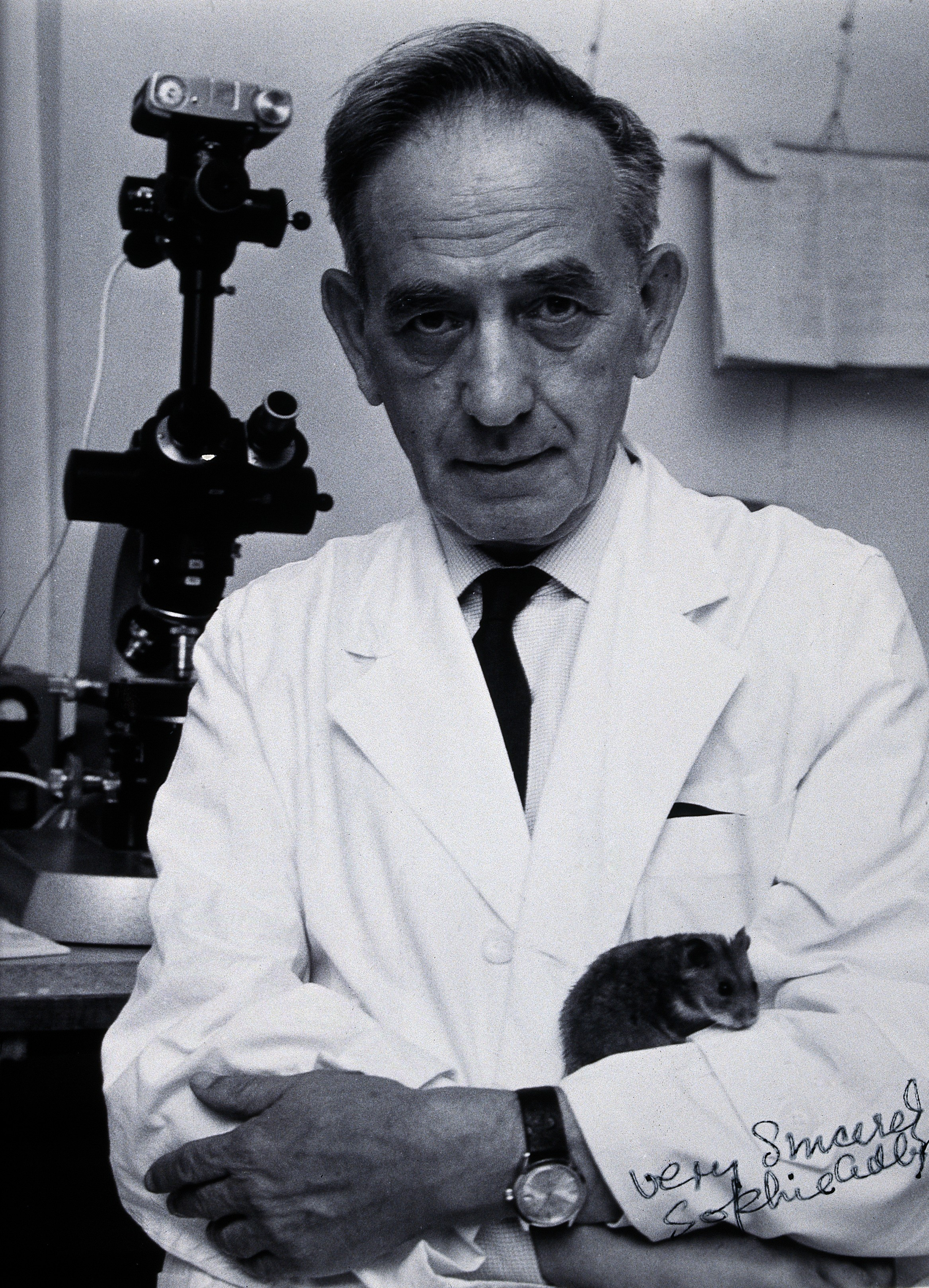 Saul Adler. Photograph by Werner Braun. Iconographic Collections Keywords: portrait photographs